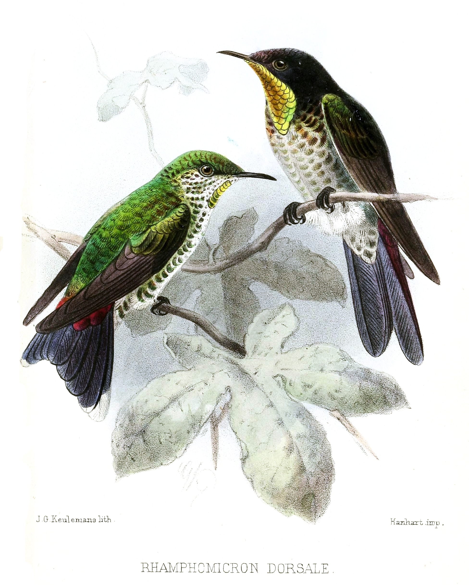 « Rhamphomicron dorsale » = Ramphomicron dorsale (Black-backed Thornbill)